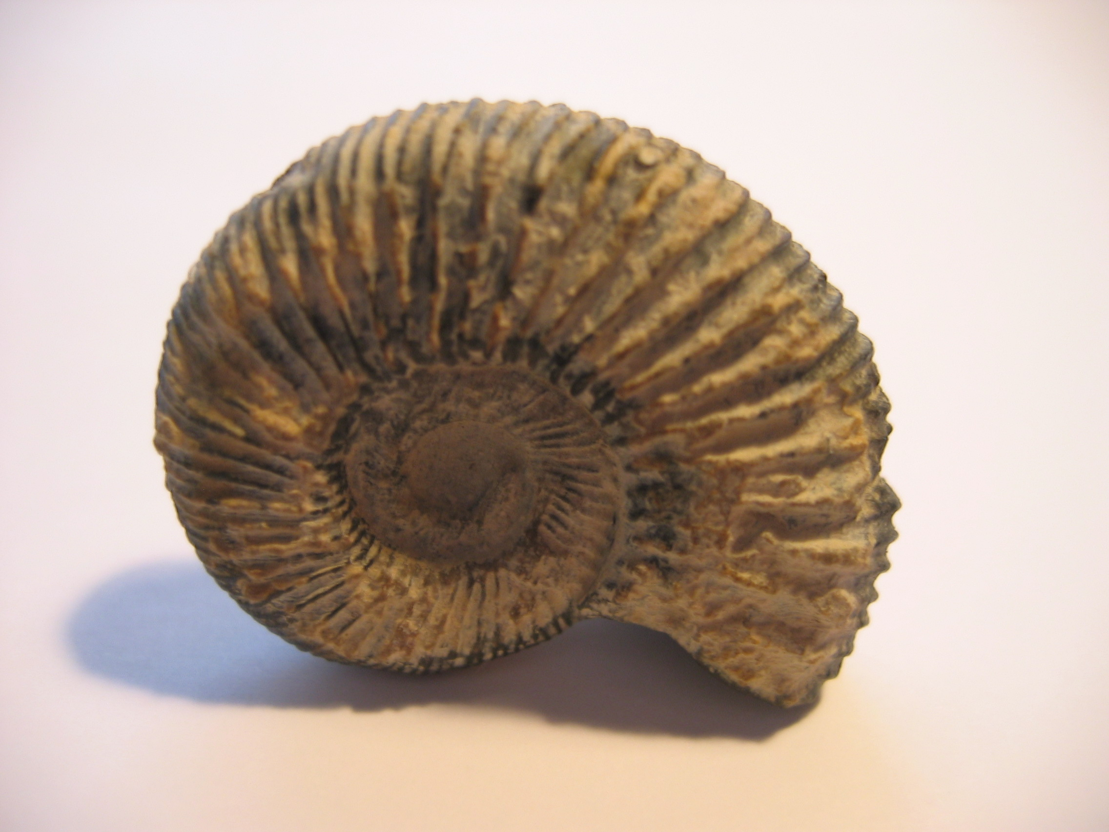 Ammonite fossil.